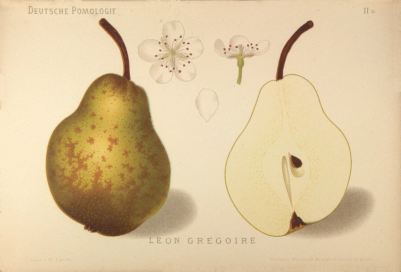 Page 36 from Deutsche Pomologie — Birnen, by Wilhelm Lauche, 1882. Published by Deutsche Pomologen-Vereins (German Pomological Society). Part of a series from the same book. The others can be found in Category:Deutsche Pomologie - Birnen Depicted pear cultivar: Léon Grégoire